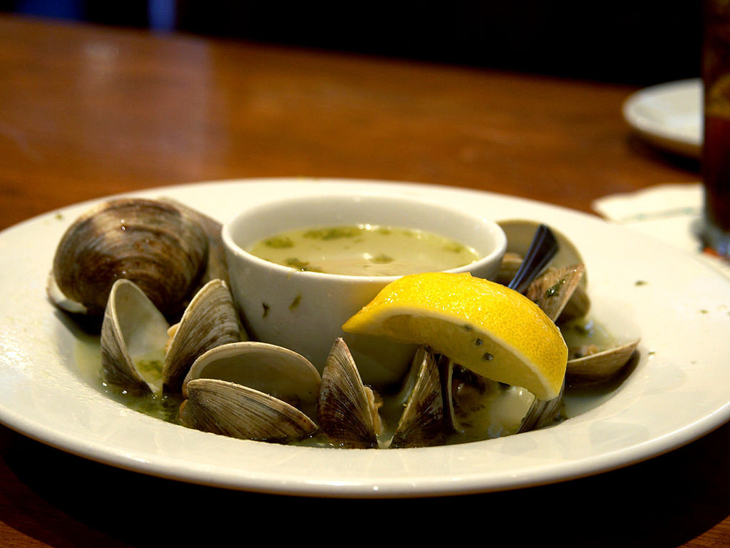 Steamed Clams. Photographer: Jon Sullivan